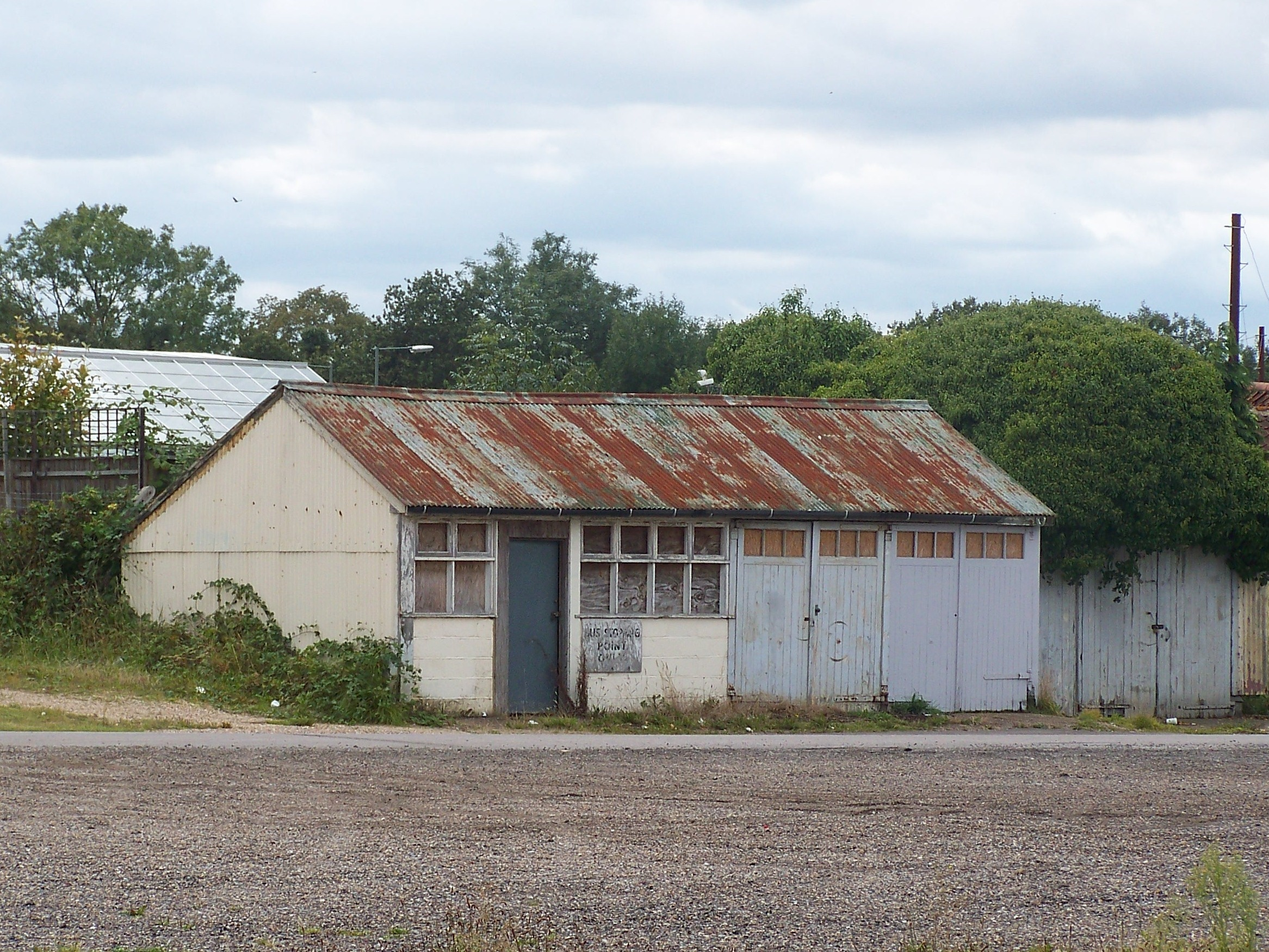 The sole surviving remnant of the original temporary buildings, seen in 2009